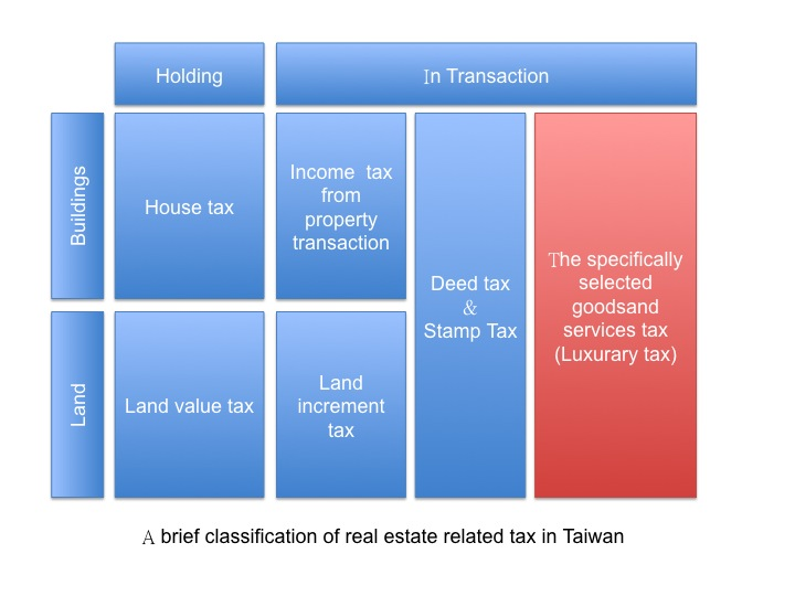 The tax system for real estate in Taiwan separate into 2 x 2 diagram, and in the diagram you can see 7 different types of tax.